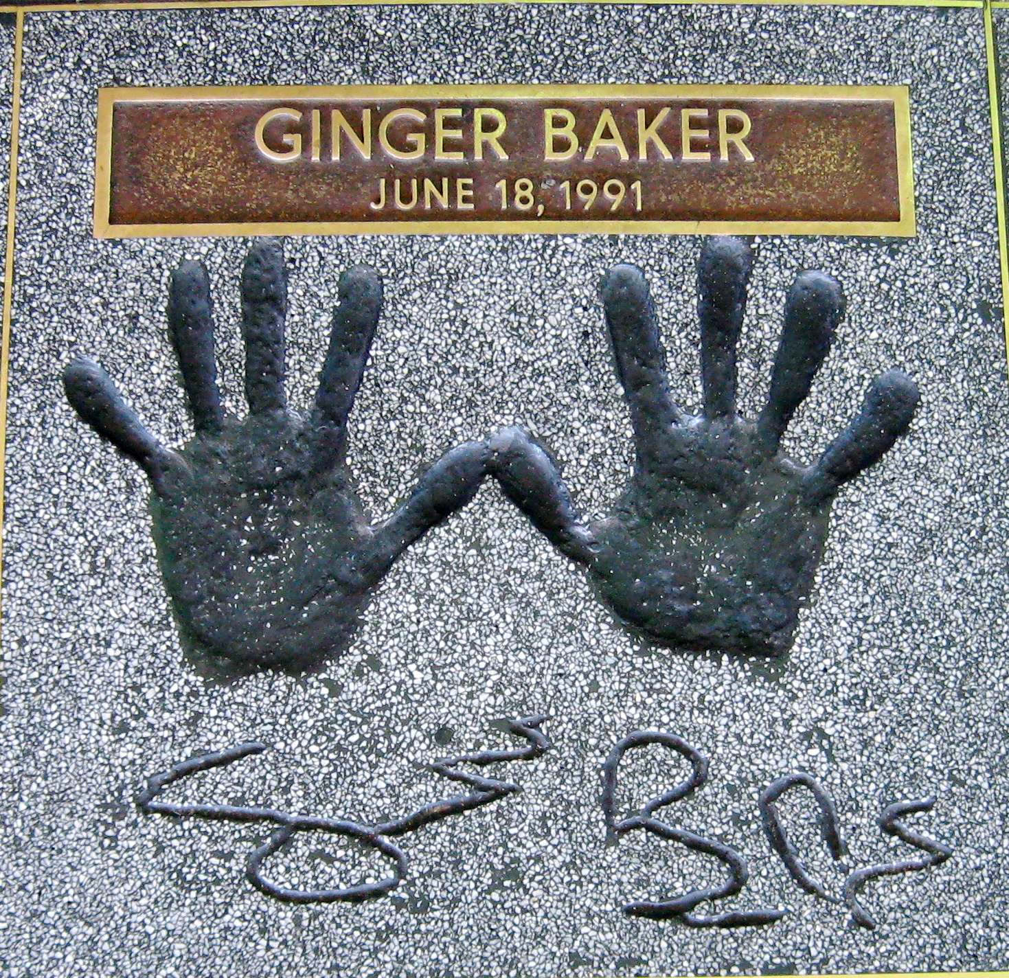 Ginger Baker handprints on the Hollywood Rock Walk of Fame